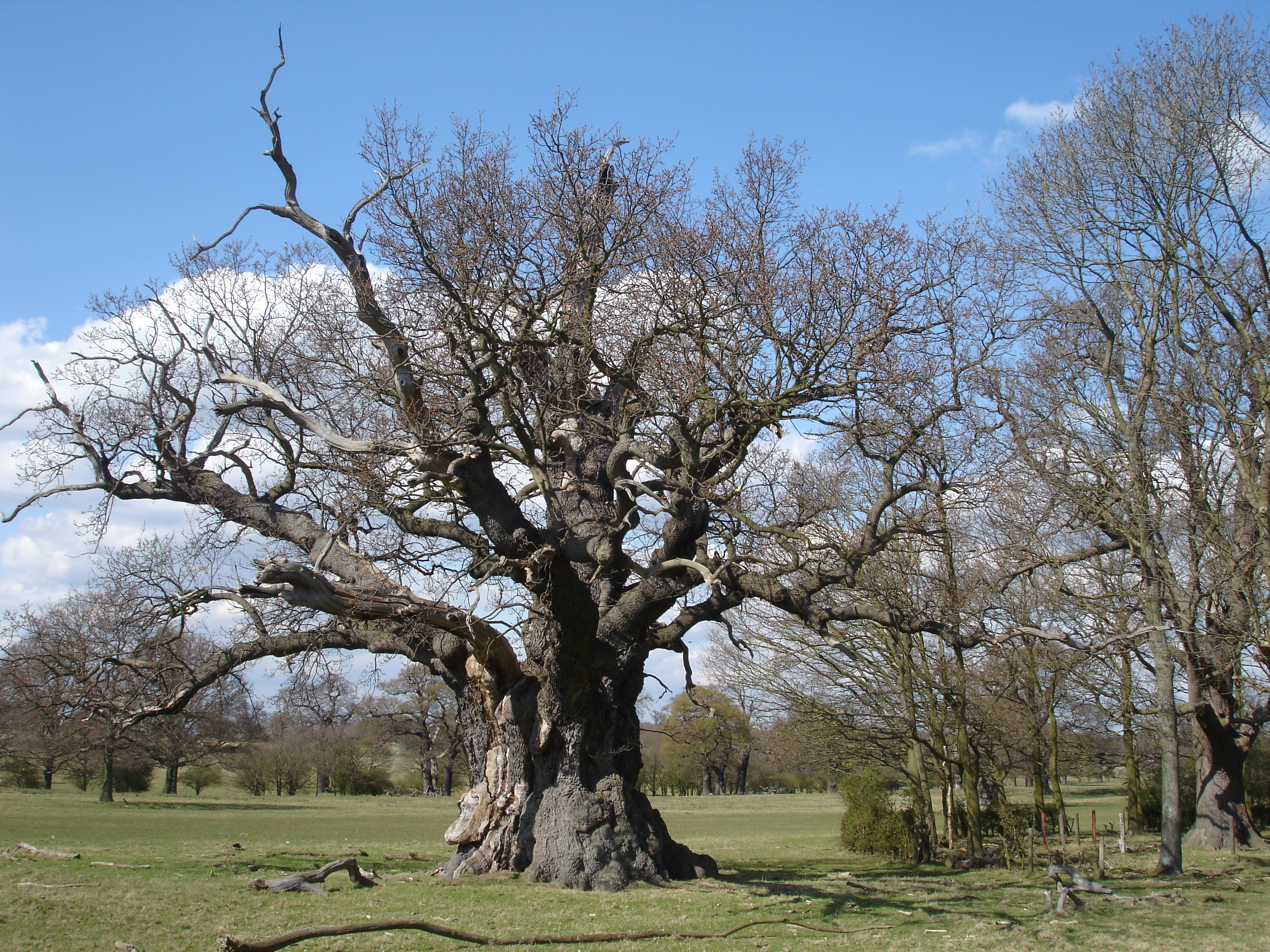 An ancient oak tree in Windsor Great Park, Berkshire, England